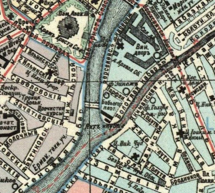 Fragment of map of Moscow showing the location of the Babyergorodskaya dam